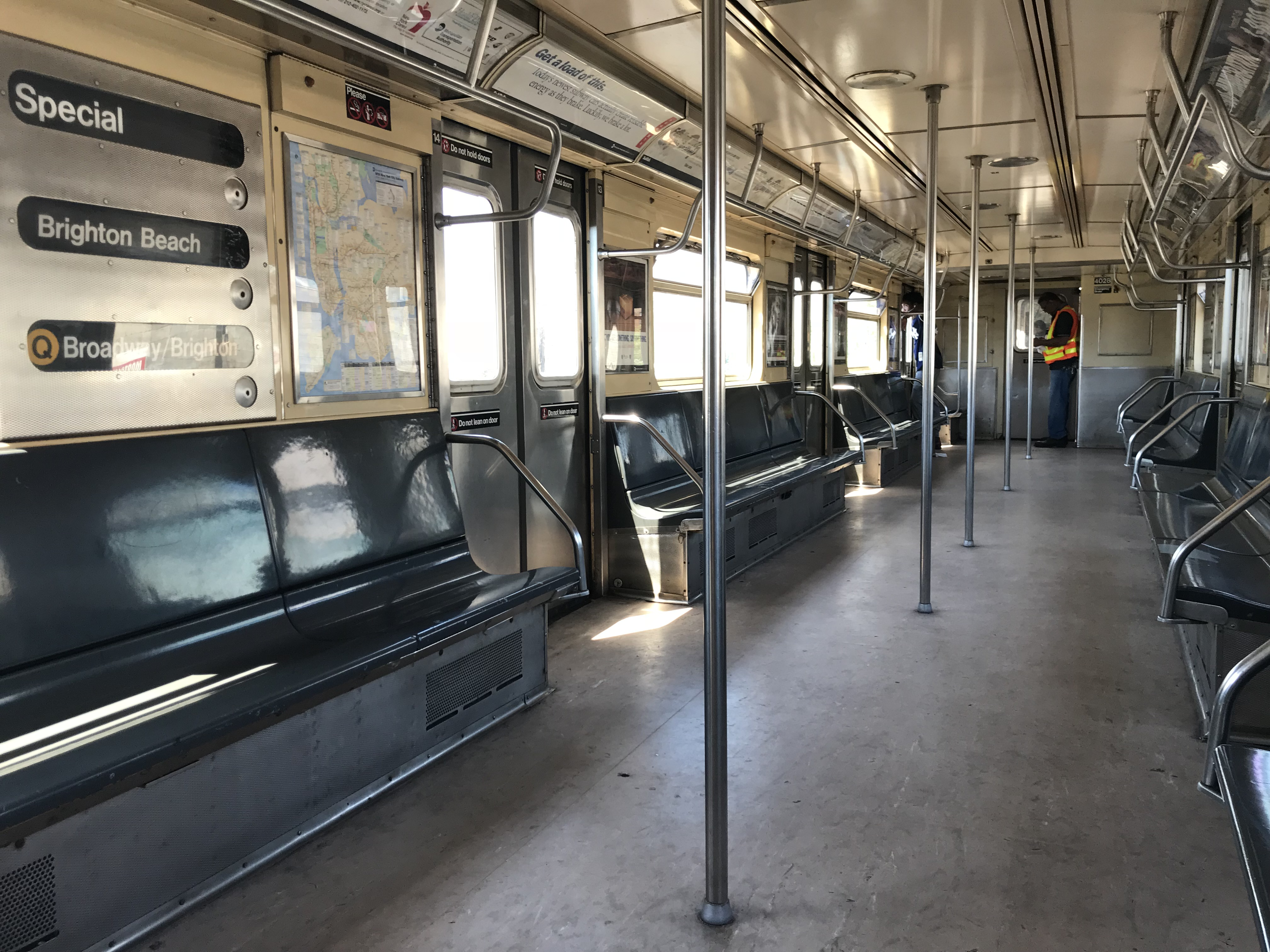 Inside of an R38 car making a nostalgia train ride along the Q line in Brooklyn.